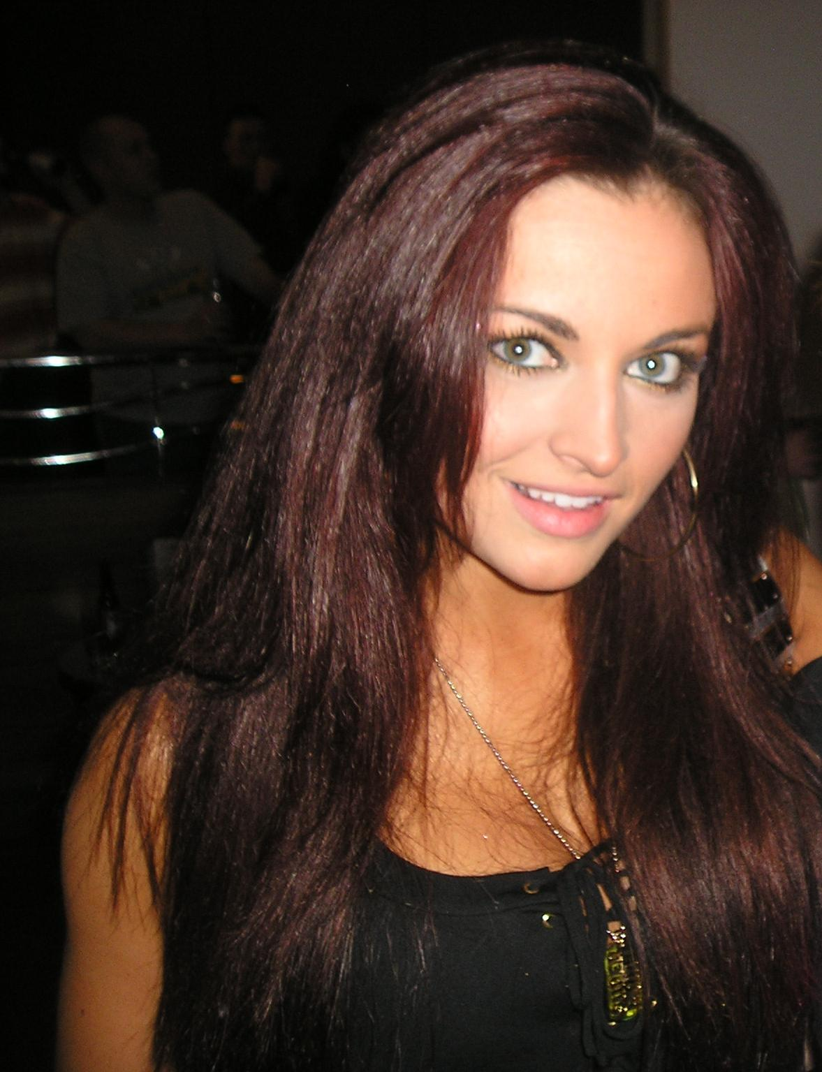 This is a picture of Maria Kanellis in Belfast, Northern Ireland for the Wrestlemania Revenge tour.